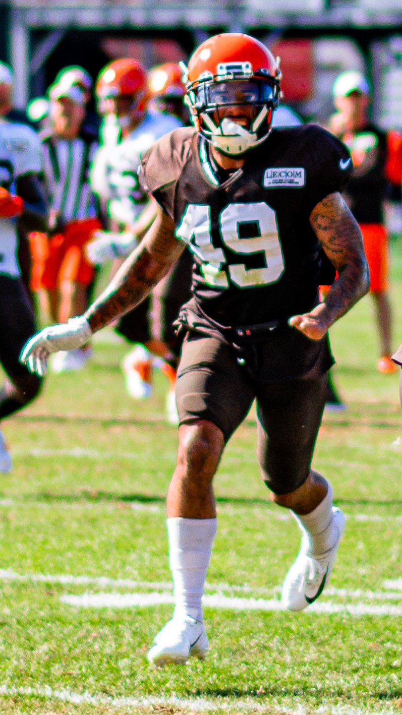 2019 Cleveland Browns Training Camp